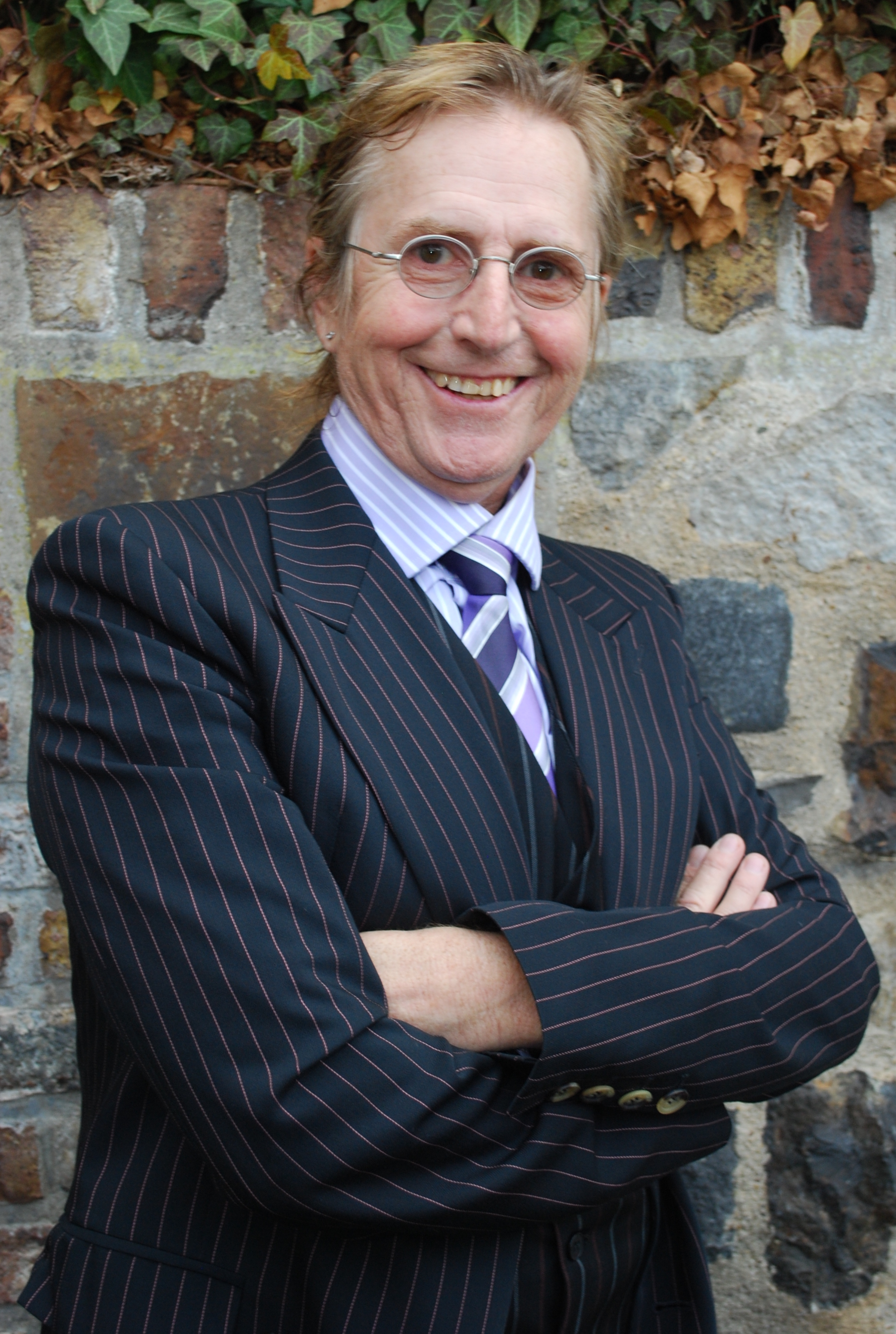 Germany, Bonn-Bad Godesberg: the German actor Martin Semmelrogge during rehearsals for the play "Der Rosenkrieg" at the "Kleines Theater Bad Godesberg".